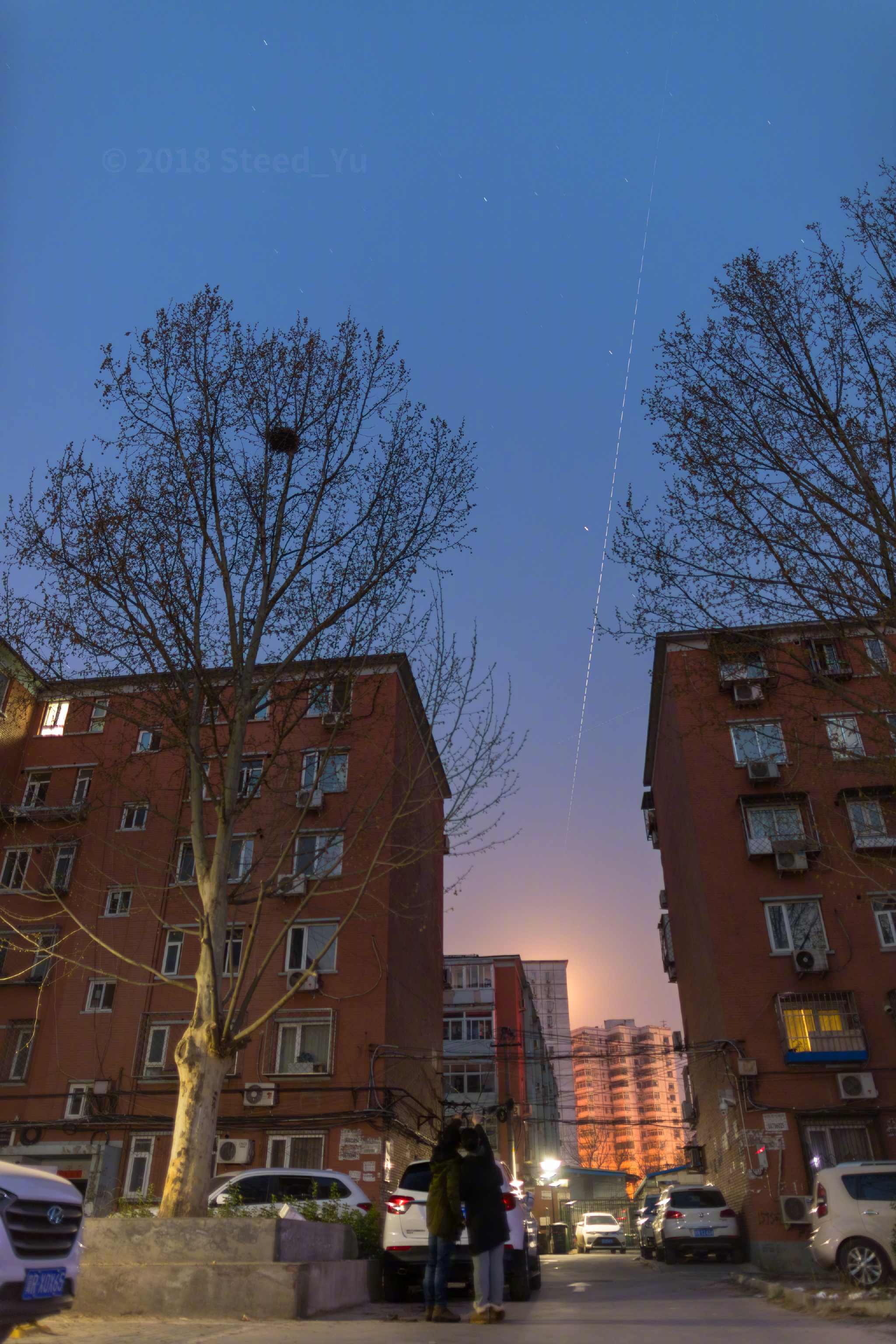 At 5:25 am on April 1st, 2018, the Tiangong-1 passed through Beijing, leaving a trail in the unlit sky. The Tiangong-1 is not only particularly bright, but also brighter than the bright star Arcturus of Bootes, and it moved quickly in the sky. That's because it's less than 180 kilometers from the ground. On April 2nd, Tiangong-1 returned to the earth's atmosphere.